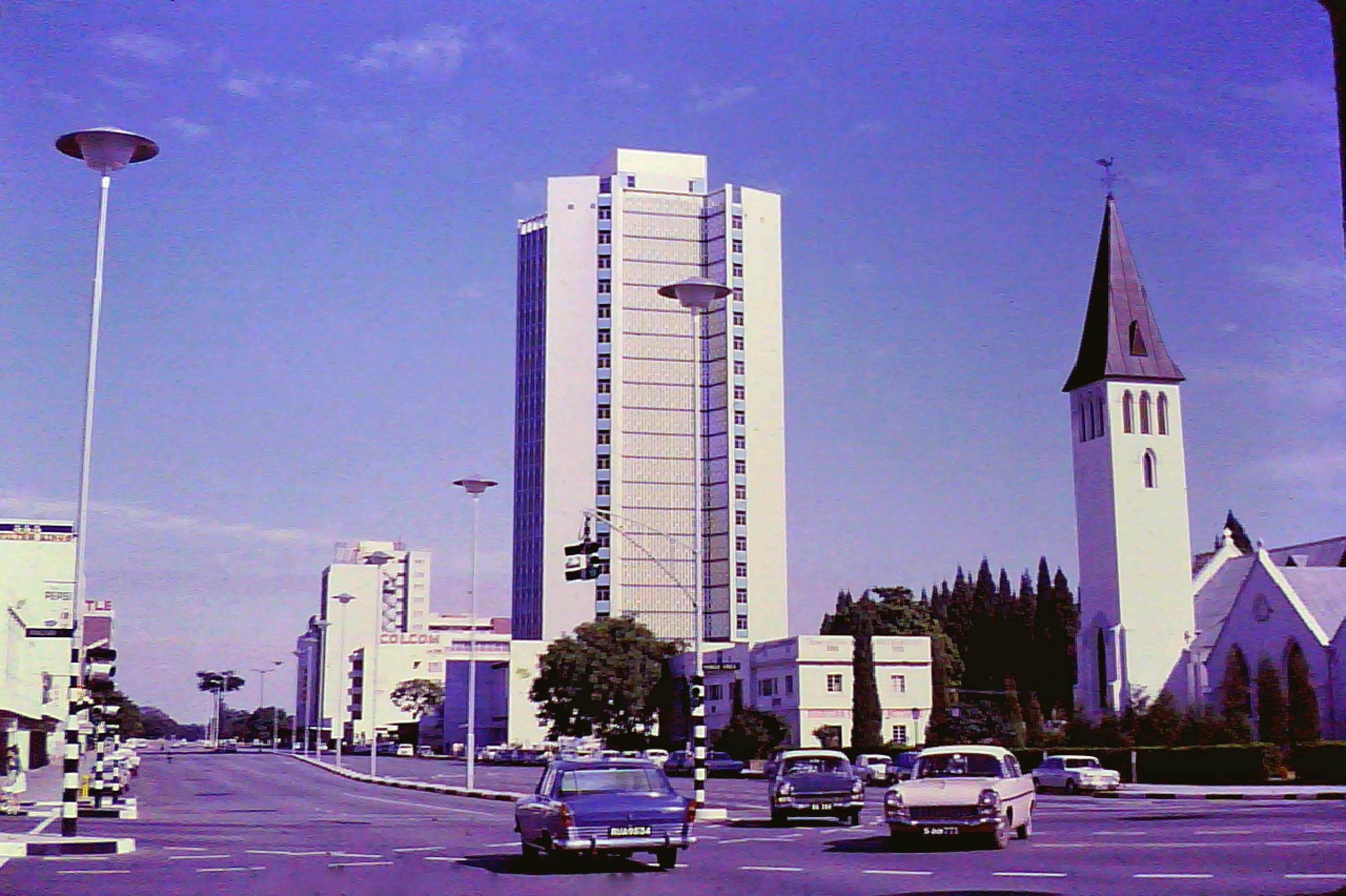 Jameson Avenue in Salisbury (now Harare, Zimbabwe). It was renamed Samora Michel Avenue in the early 1980s. This photo was taken in the early 1970s.